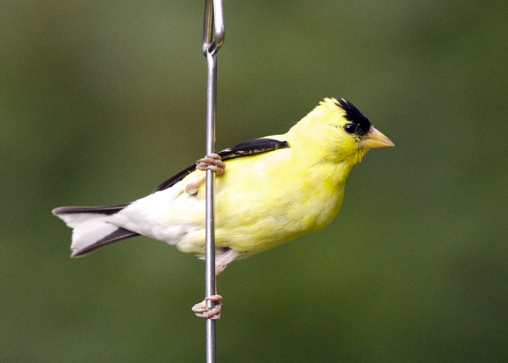 bird "American Goldfinch" yellow